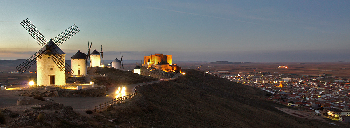 Molinos y castillo de Consuegra.